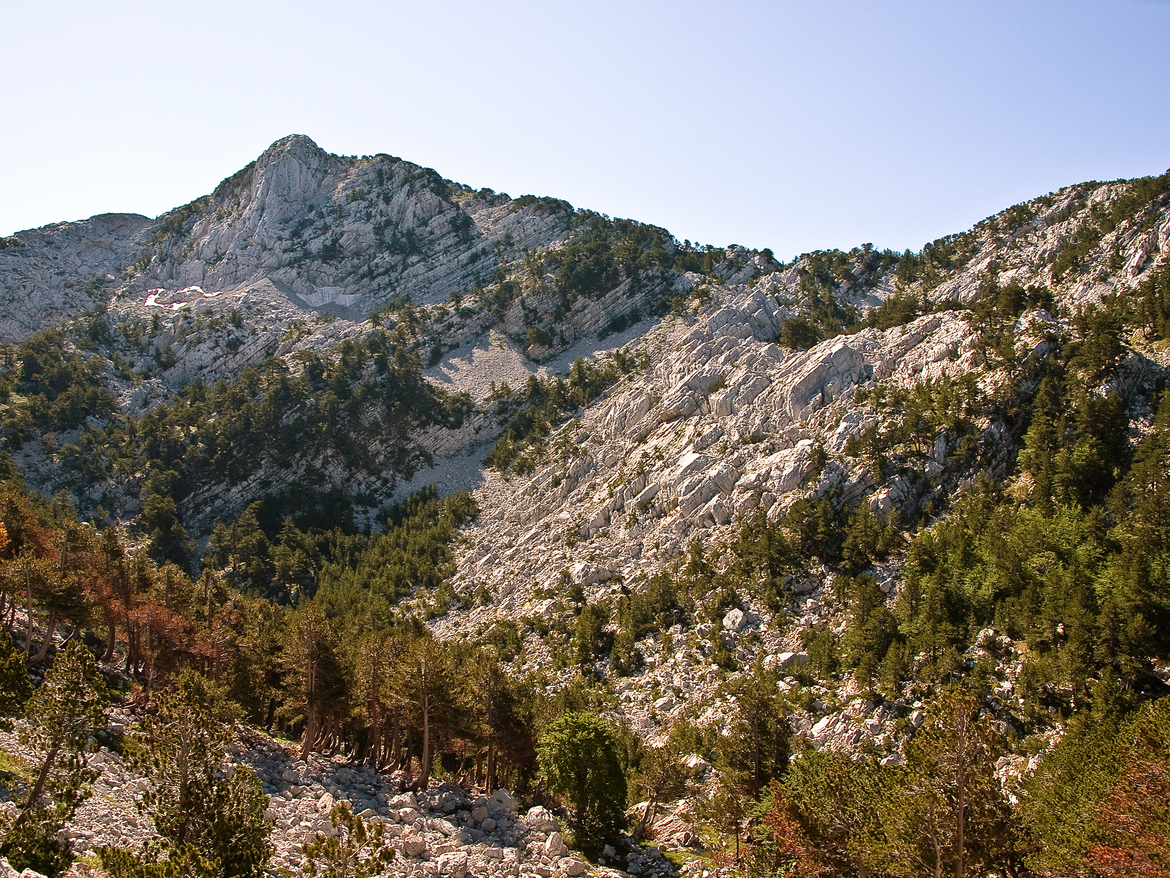 Pavlovica do cirque on the North-Western slobe of Zubacki kabao, highest peak of the subadriatic Dinaric alps on Mr. Orjen in Montenegro